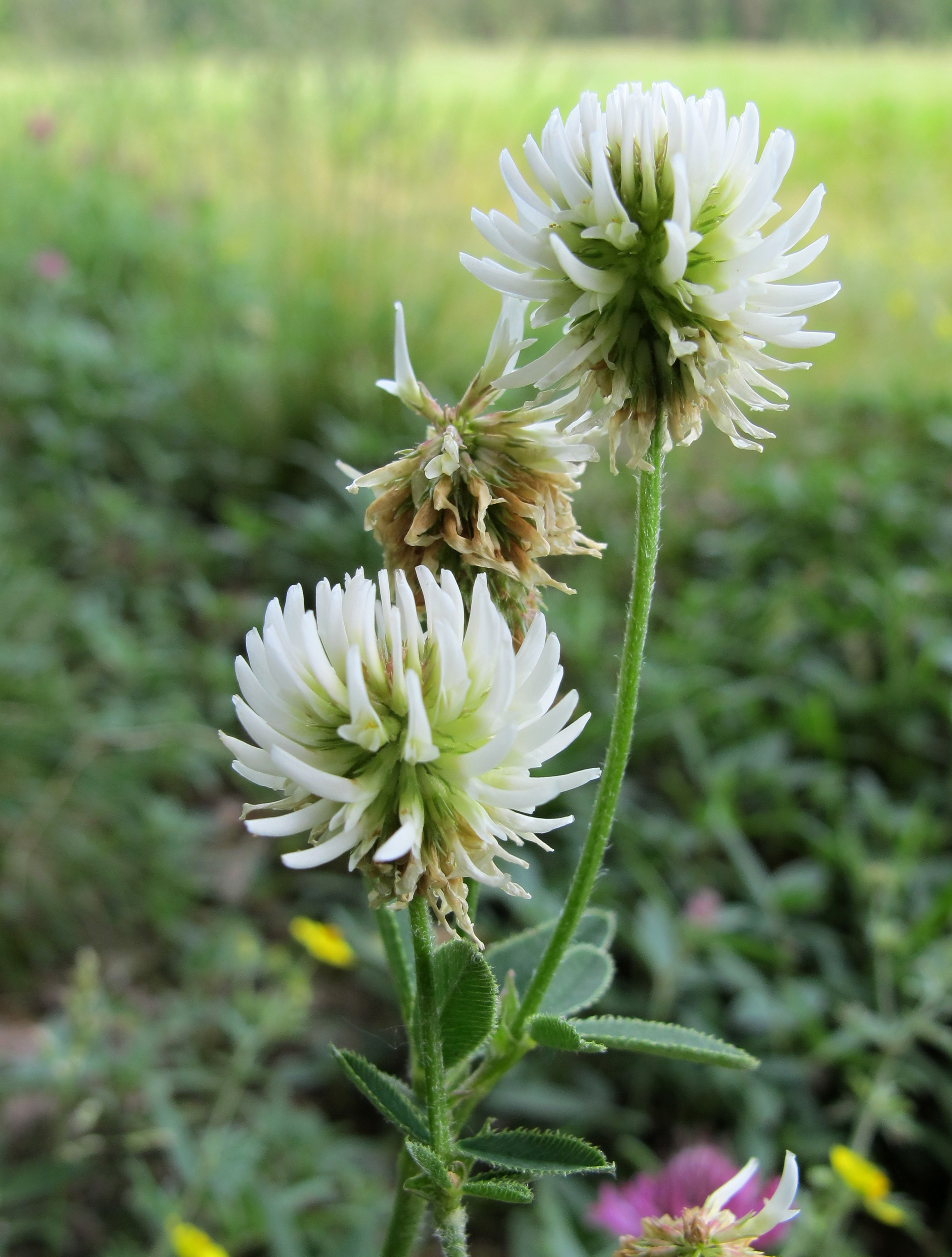 Trifolium montanum in national nature reserve Drbákov-Albertovy skály near Nalžovické Podhájí in Příbram District